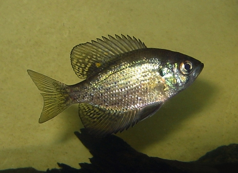 Flier (Centrarchus macropterus)